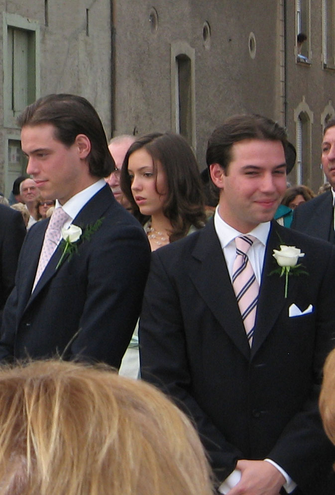 From left to right: Prince Félix of Luxembourg, Princess Alexandra of Luxembourg and Prince Guillaume, Hereditary Grand Duke of Luxembourg